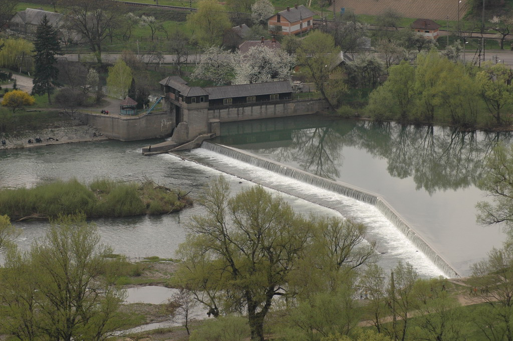 small-scale hydro-electric pland on Uzh river near Nevitske (a view from the Nevitske castle, Zakarpattya oblast, Ukraine)